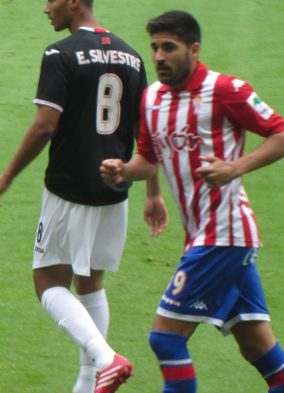 Carlos Carmona Bonet, football player for Sporting de Gijón